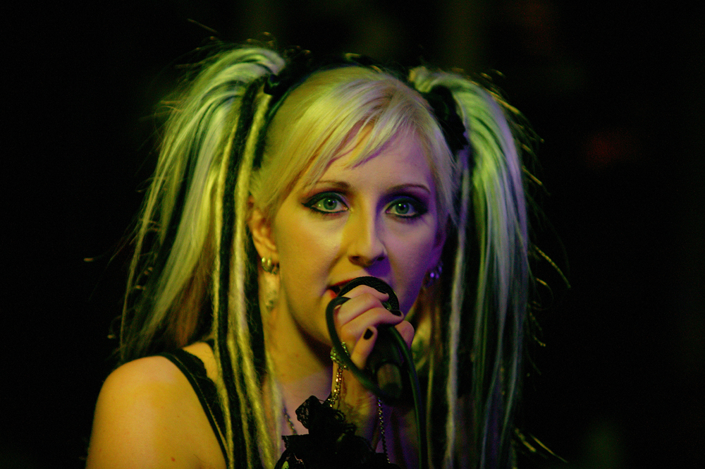 Photographed by John Kloepper at Lucky Devils in El Paso Tx